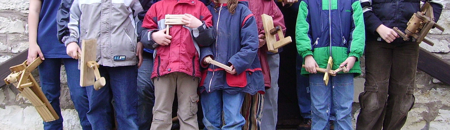 children with rattles in the Franconian Switzerland, Germany